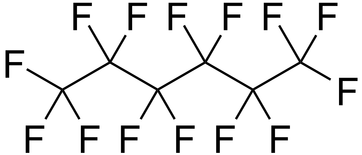 chemical structure of perfluorohexane